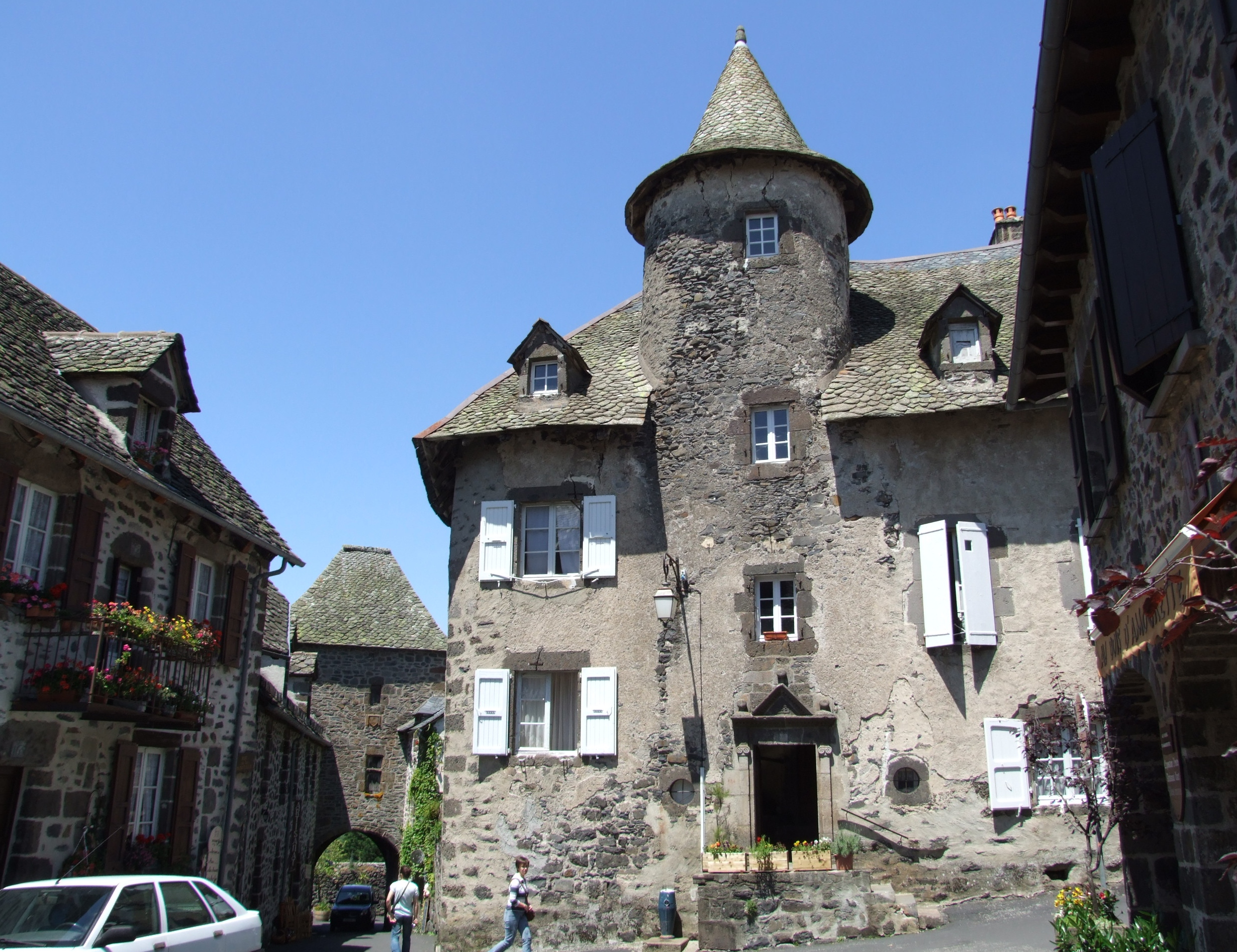 Salers, Cantal, FRANCE